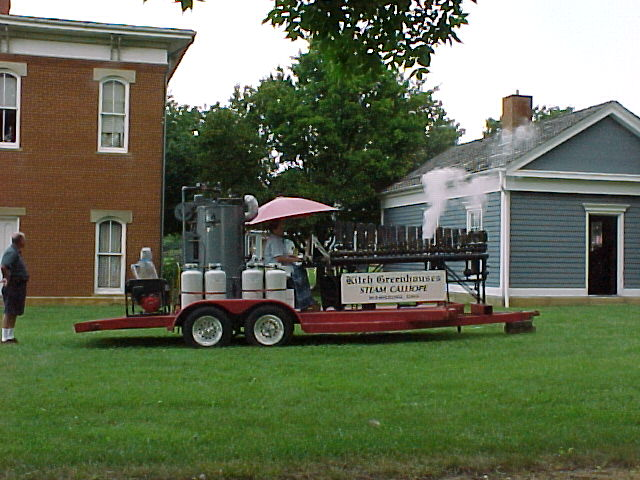 Photo I took of the Kitch Greenhouse Steam Calliope being played at the Ohio Historical Society Delicious Dish event, July 30, 2006. The Kitch Greenhouse calliope travels to special events from its home in Miamisburg, Ohio. The Ohio Historical Society is located in Columbus, Ohio. Lowellt 23:06, 30 July 2006 (UTC)